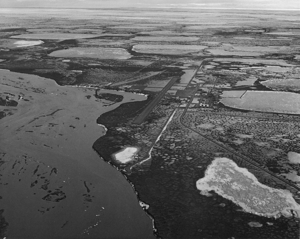 Prudhoe Bay Oil Fields: Aerial view of British Petroleum (BP) and ARCO oil fields on the North Slope. FWS keywords Alyeska Pipeline; North Slope; oil production; Industries; ARLIS; Alaska Source FWS-245 Rights Public domain